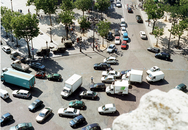 Traffic 13-abreast traverses the Place de L’Etoiles. Notice the lone traffic policewoman in the middle of the traffic (there is also one directing traffic at one of the entrances, by the red car). Taken by Adrian Pingstone in July 2001 and released to the public domain.